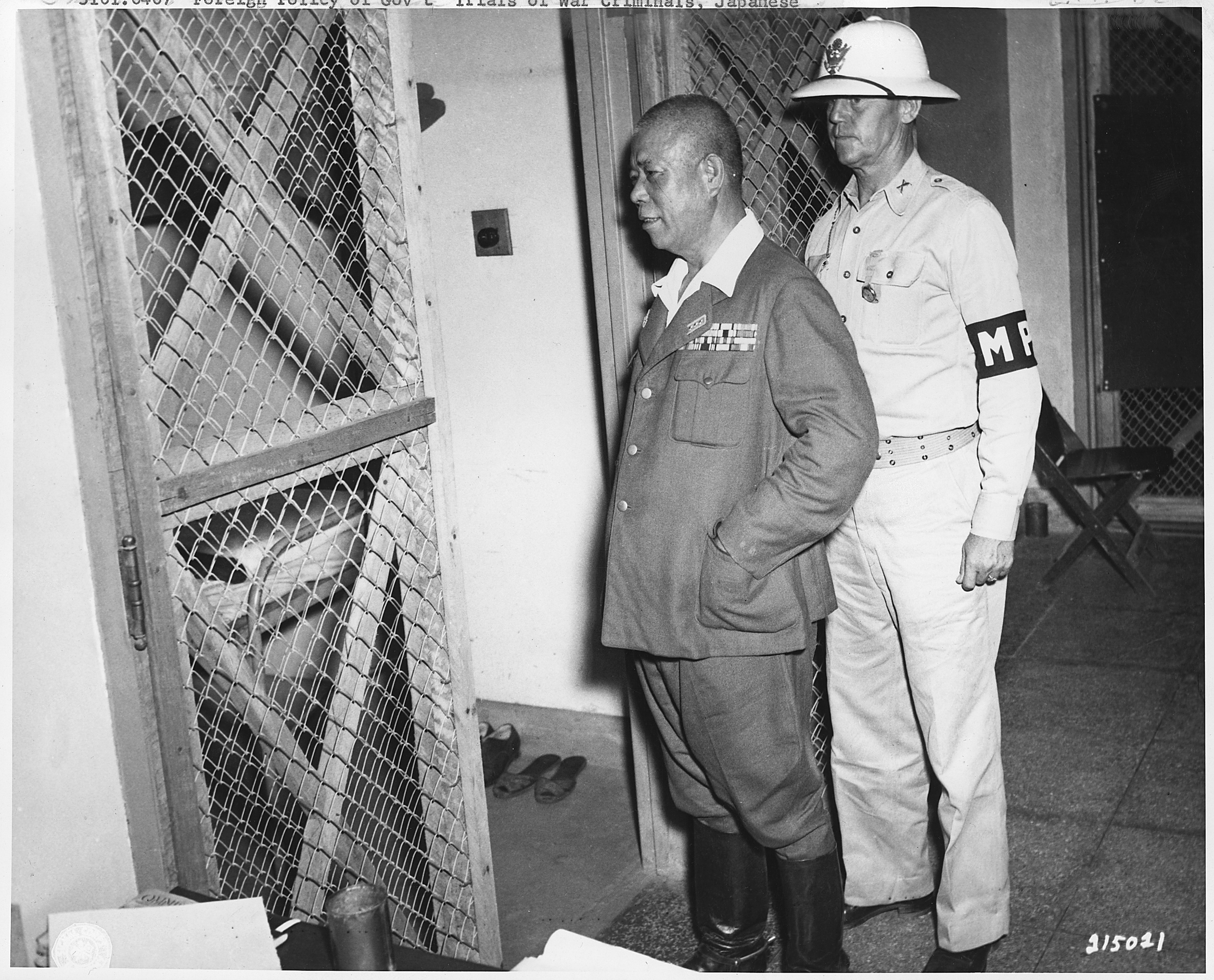 Scope and content: "The Tiger" returns to his "cage". Here General Tomoyuki Yamashita, guarded by military police, returns to his cell at the end of a day in court listening to testimony against him in the war crimes trial at Manila, P.I. His expression indicates his reaction to testimony submitted concerning massacre, rape, and other atrocities. 11/1/45.